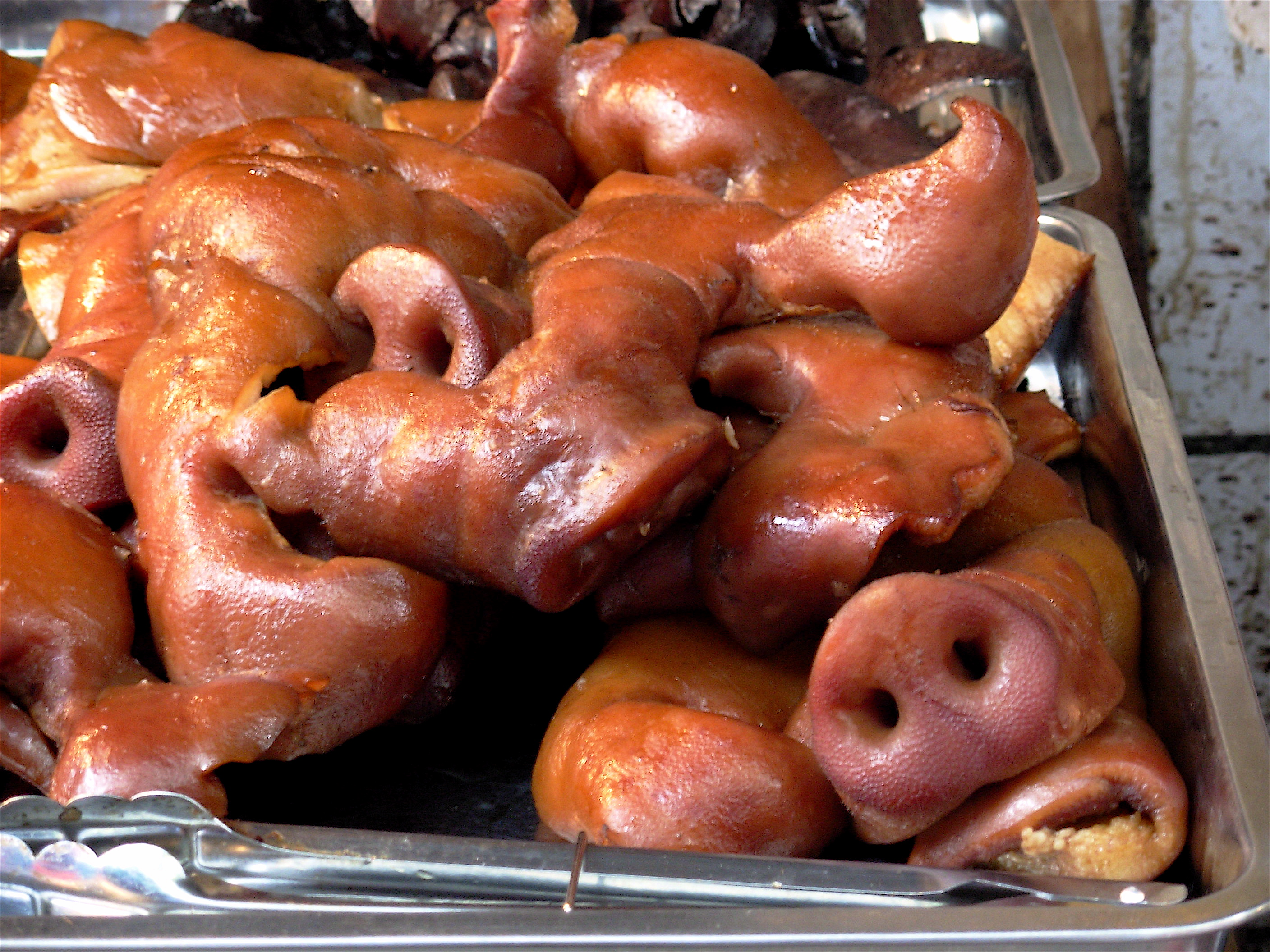 A grim sight at a street market in Chongqing, South-west China.